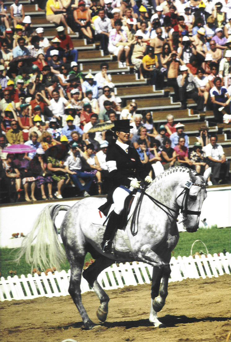 Photo of Elisabeth Max-Theurer at the 1980 Olympics in dressage.